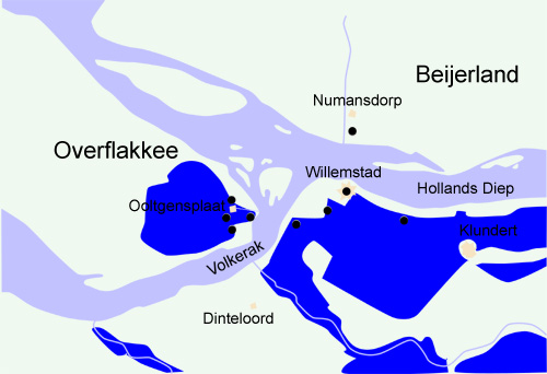 "Stelling van het Hollands Diep en Volkerak" (military defensive line) in the Netherlands. Disclaimer: The exact location of the forts and inundation areas may differ from reality to a slight extent. Made by Niels Bosboom.